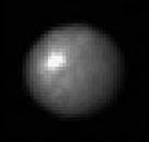 NASA's Hubble Space Telescope took this images of the asteroid 1 Ceres. The bright spot that appears in the image is a mystery. It is brighter than its surroundings. Yet it is still very dark, reflecting only a small portion of the sunlight that shines on it.